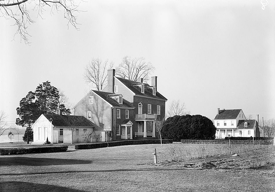 Potter Hall, Caroline County, Maryland, USA, view from the land side